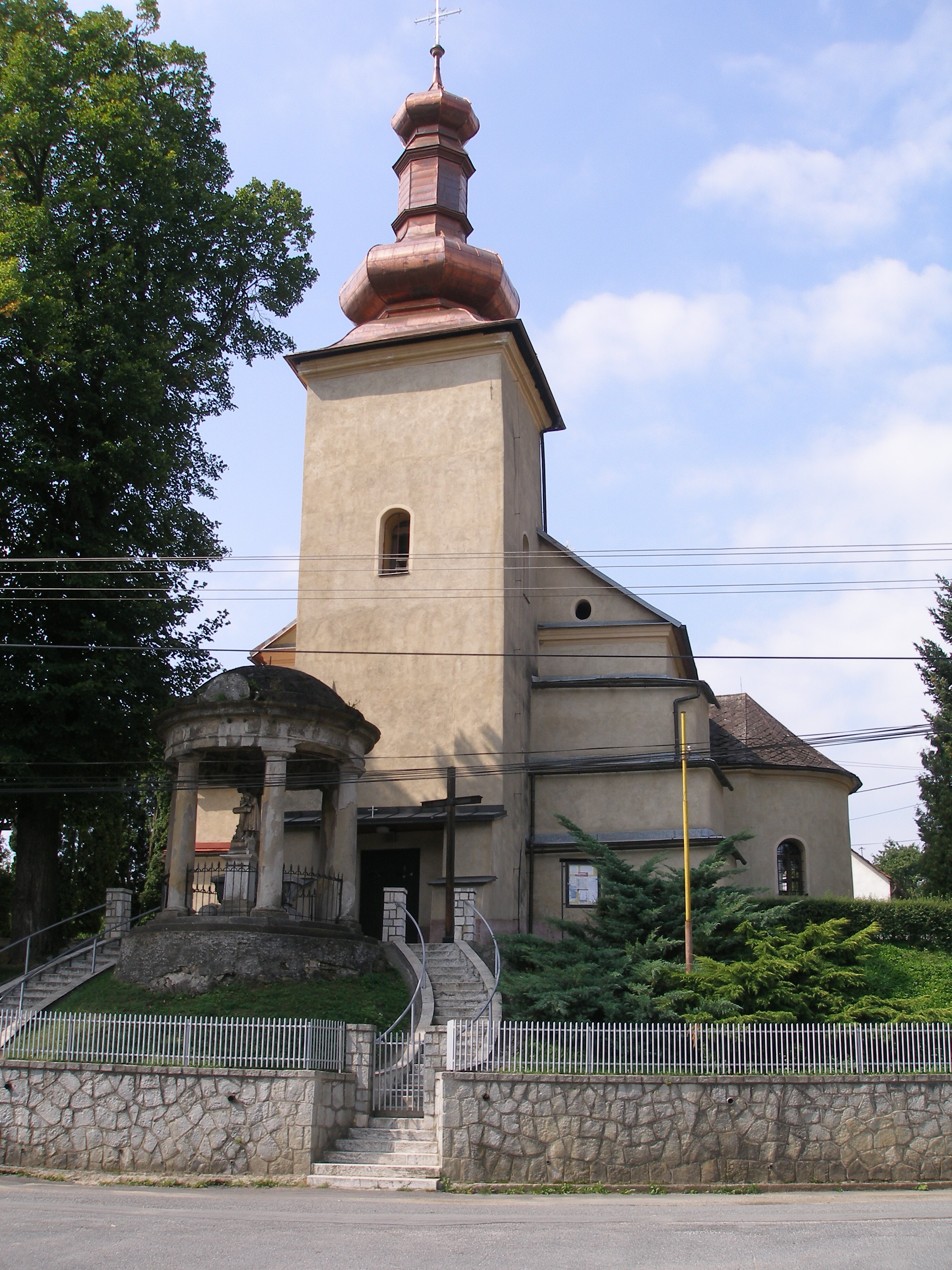 Šarišská obec Hermanovce.Kostol sv. Alžbety Uhorskej. This medium shows the protected monument with the number 707-292/1 in the Slovak Republic.